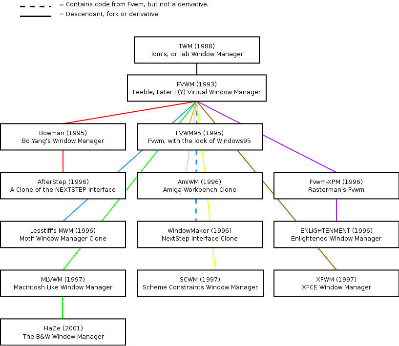 Fvwm family tree